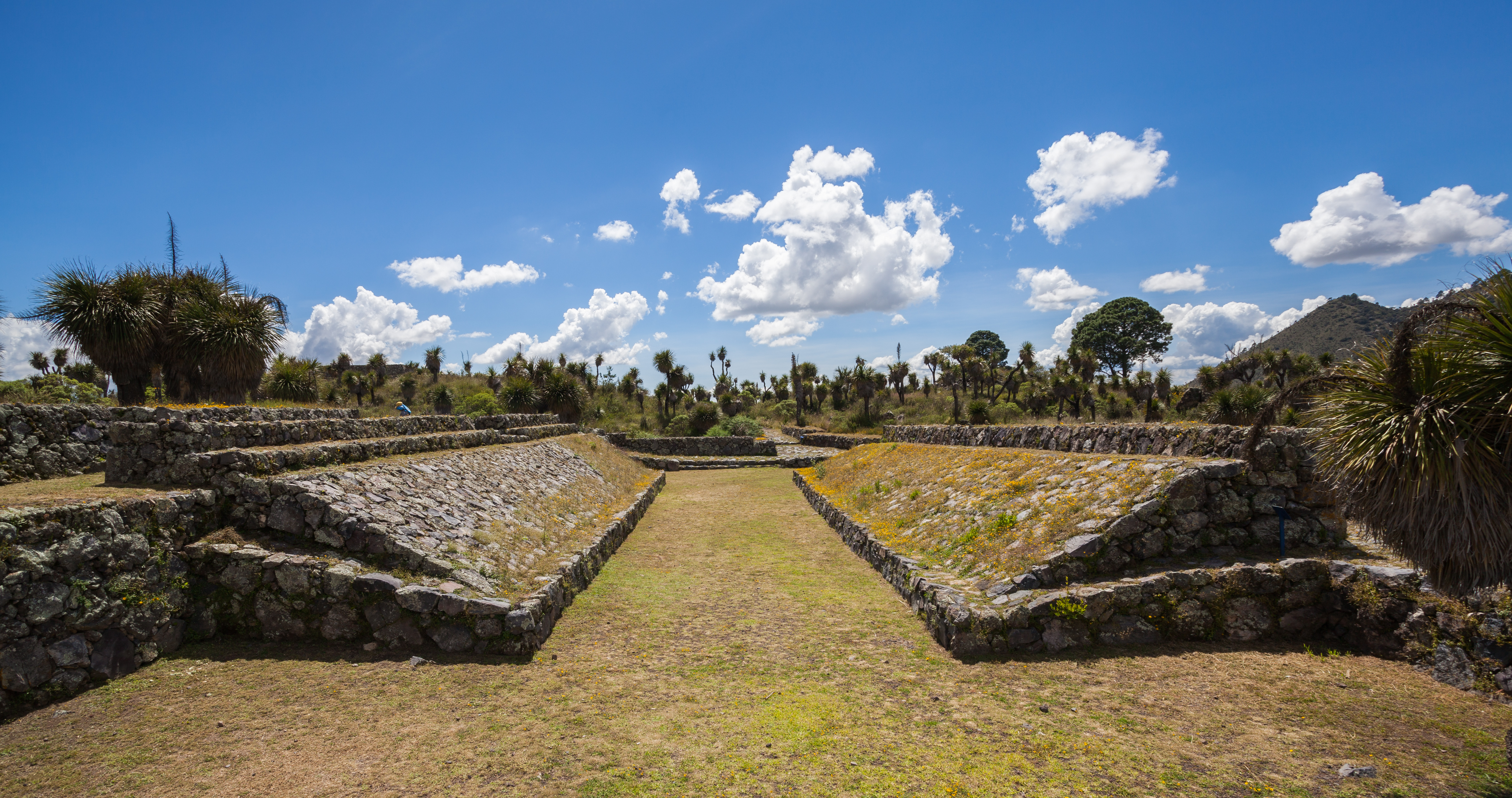 Archaeological area of Cantona, Puebla, Mexico